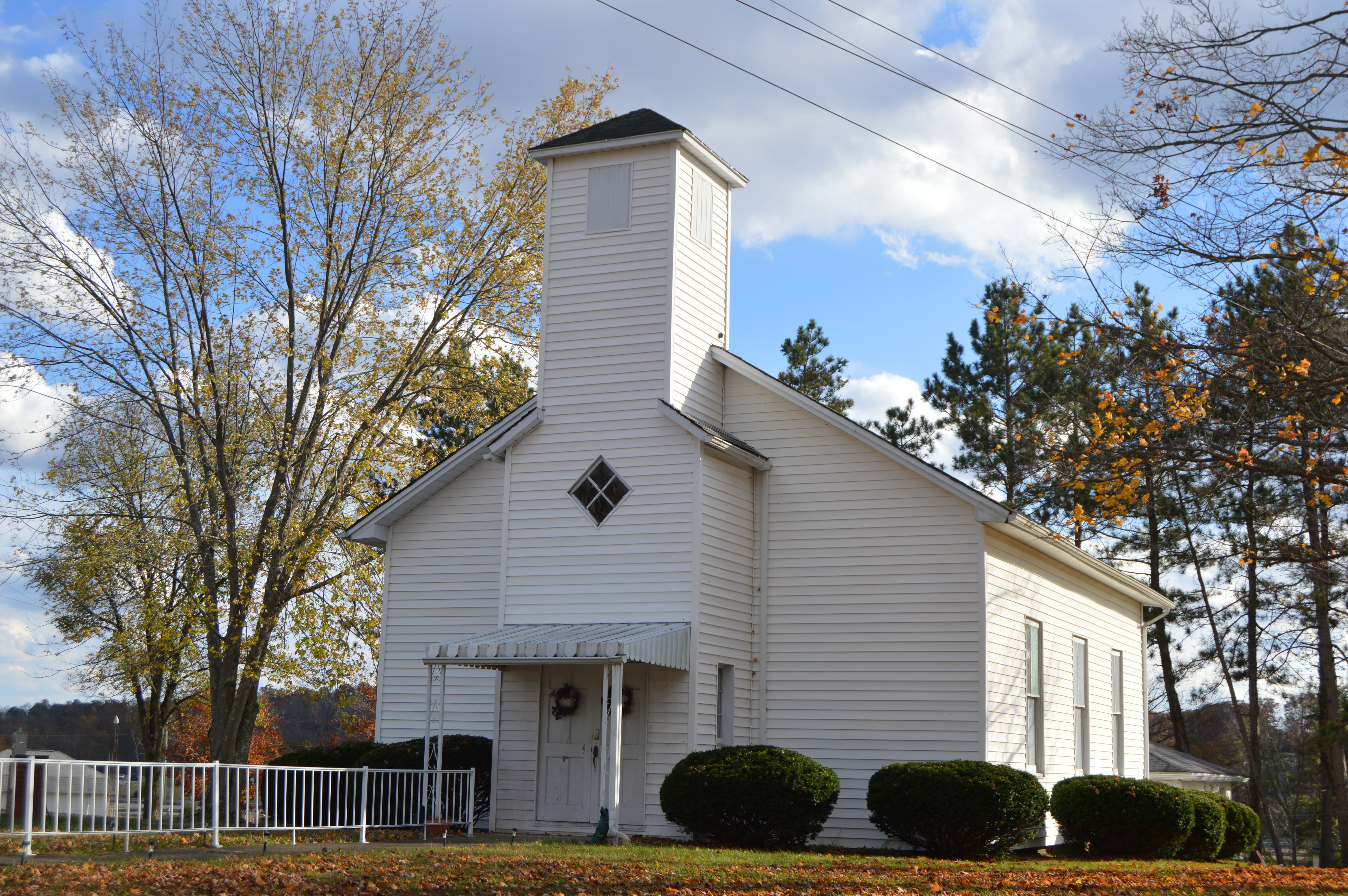 Front and western side of Torch United Methodist Church, located at 29023 Torch Road in Troy Township, Athens County, Ohio, United States.